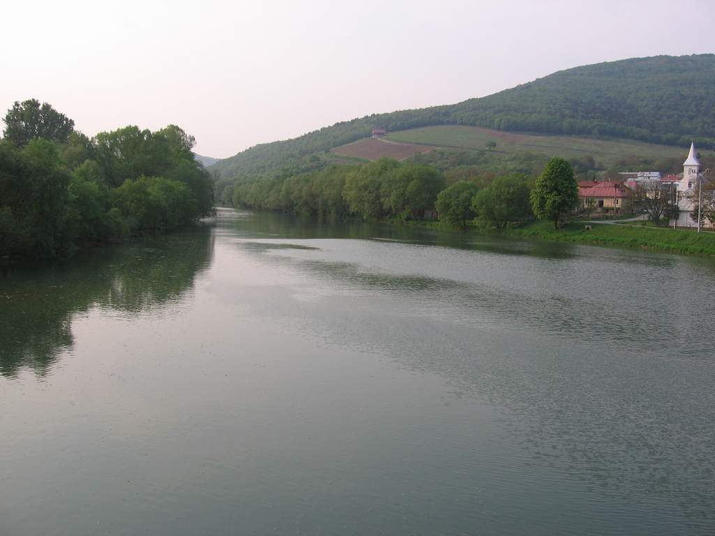 River Laborec at Strazske - view northwards.